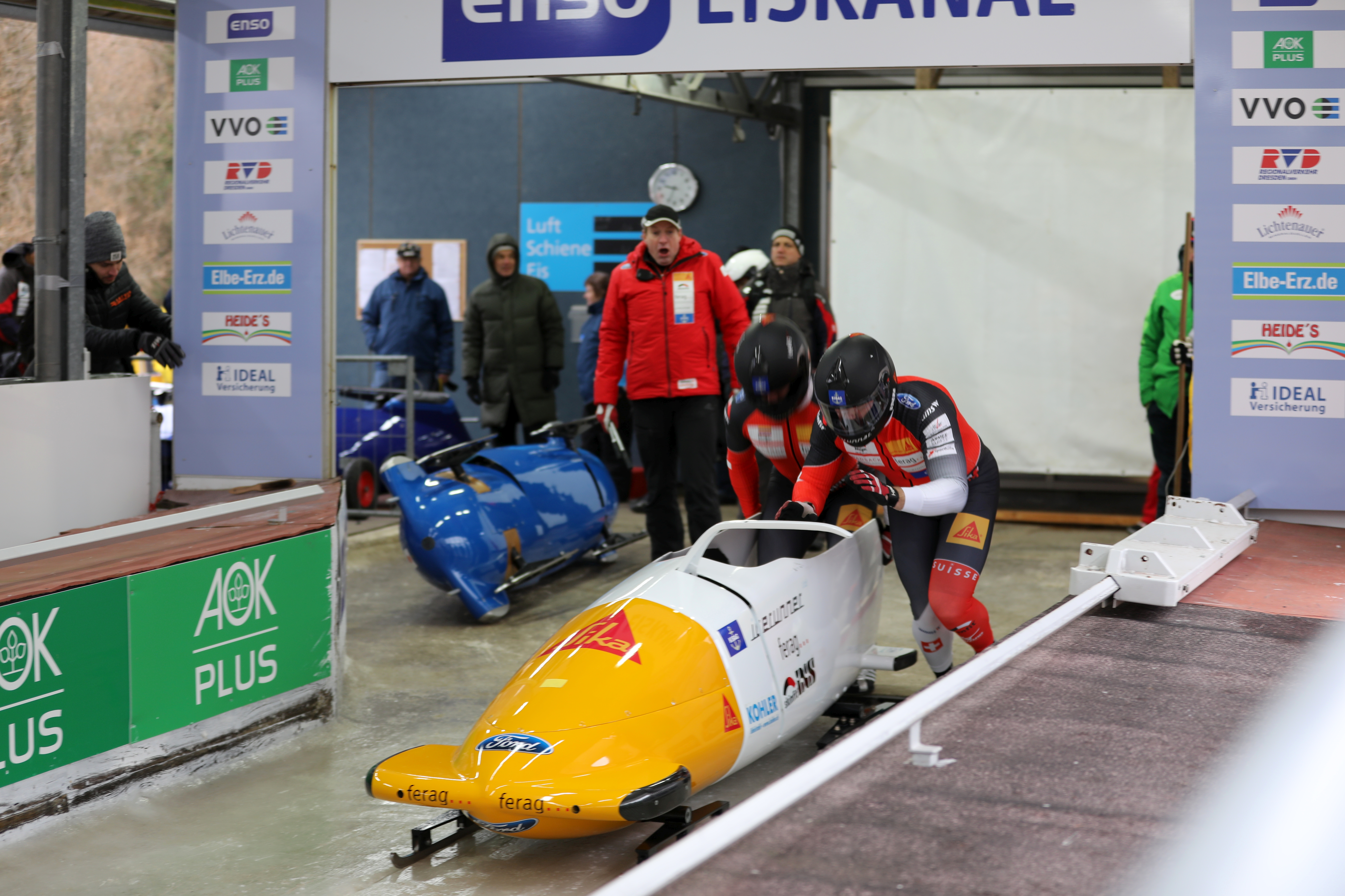 Bobsleigh Europe Cup 2018-19 in Altenberg - 2-man Race 1, first run